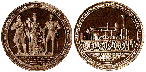 Russian medal minted on the occasion of the opening of the Tsarskoye Selo Railways